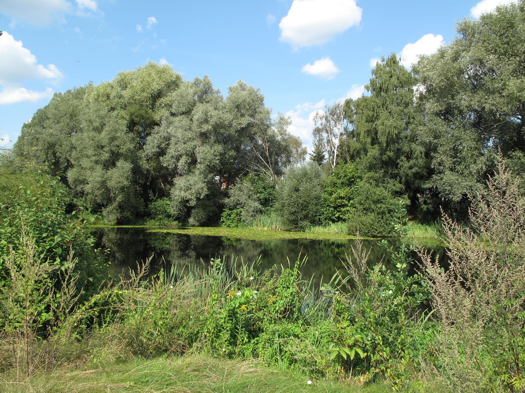 Wiesenbecken (rainwater basin) at the Bullengraben . The Bullengraben (german for: bullditch) is a drainage channel to the river Havel in the localities Staaken, Wilhelmstadt and Spandau in the borough Berlin-Spandau, Germany. In 2007 there was opened the green space Bullengraben (german: „Grünzug Bullengraben“) along the 4,5 kilometre long ditch.